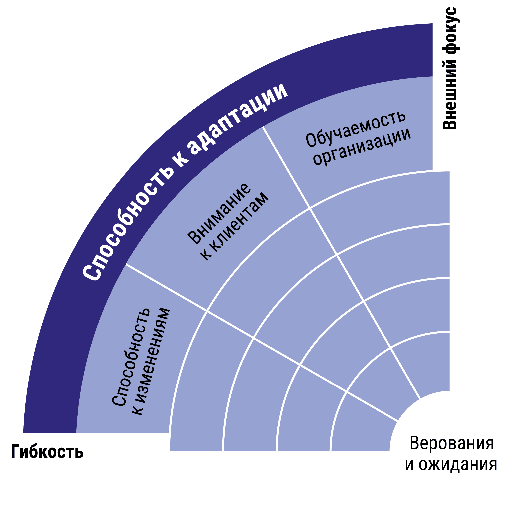 Model Denison Adaptation